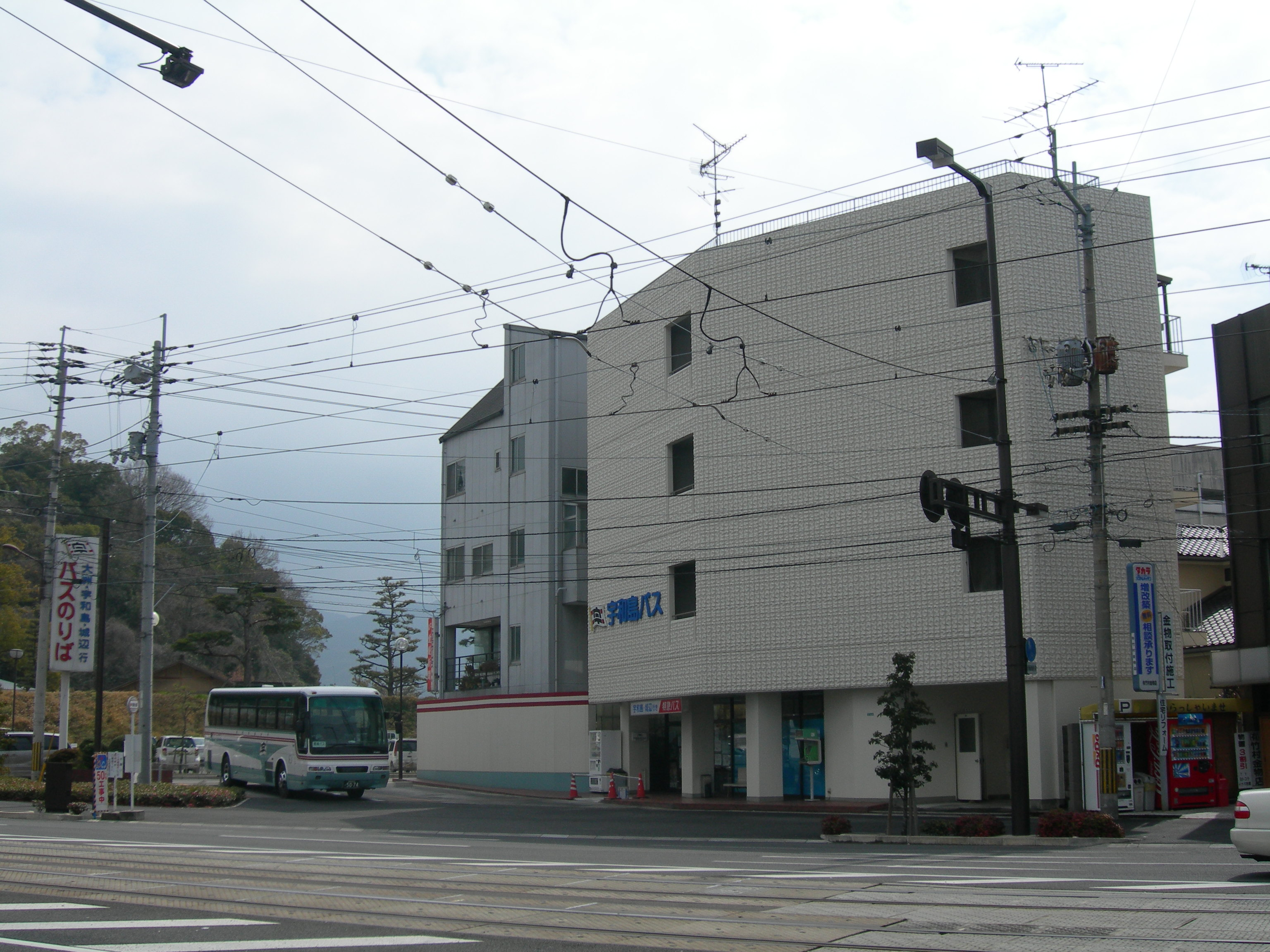 Uwajima Bus Dogo Depot